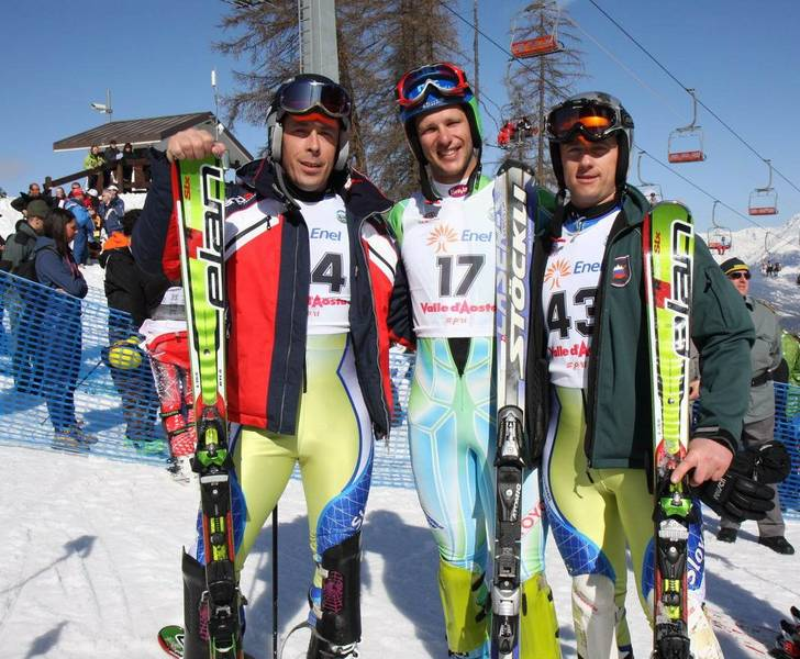 Andrej Jerman, Danilo Klinar and Miha Vindišar at the 2010 Winter Military World Games